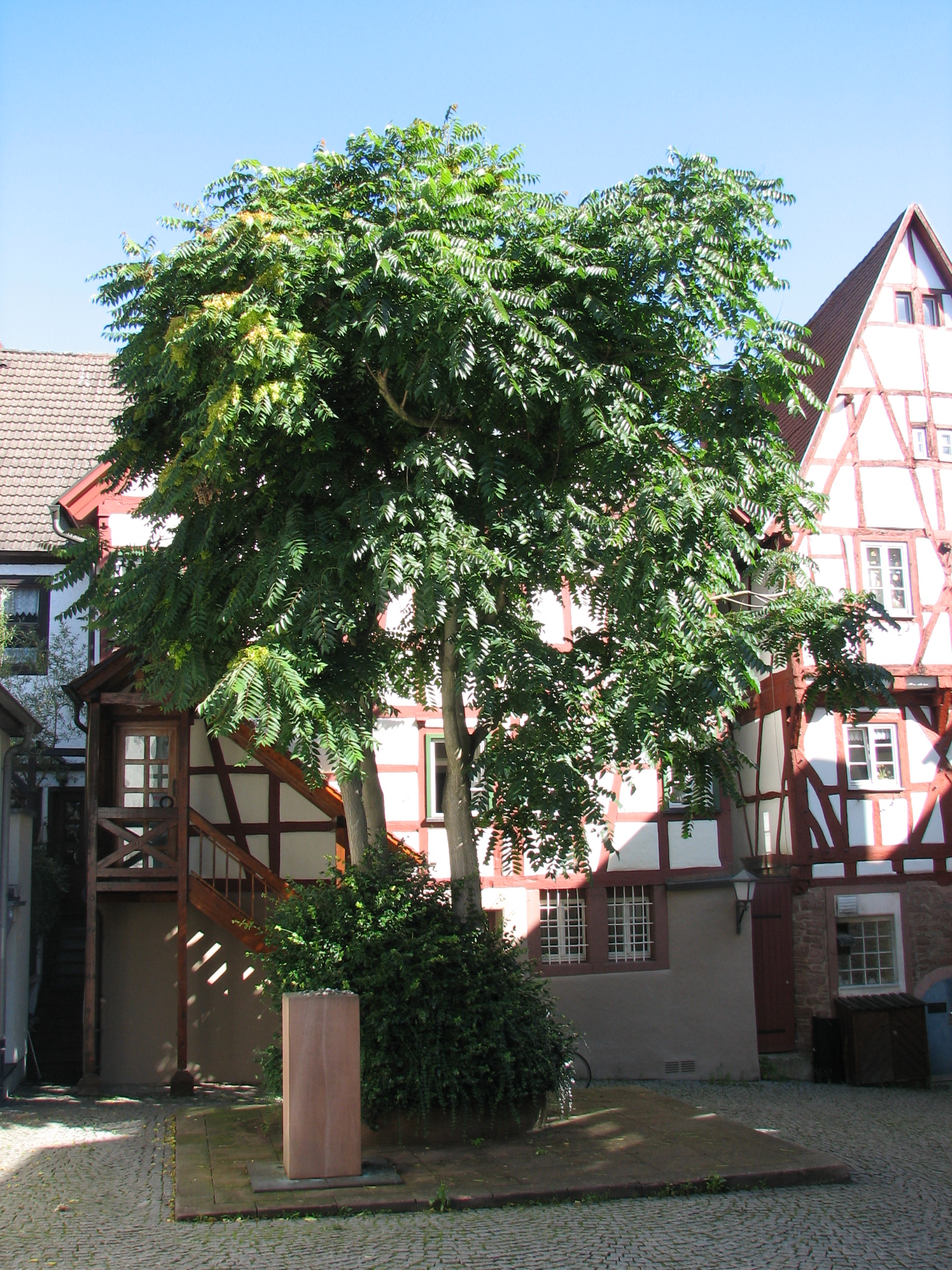 Synagogue square of Mosbach